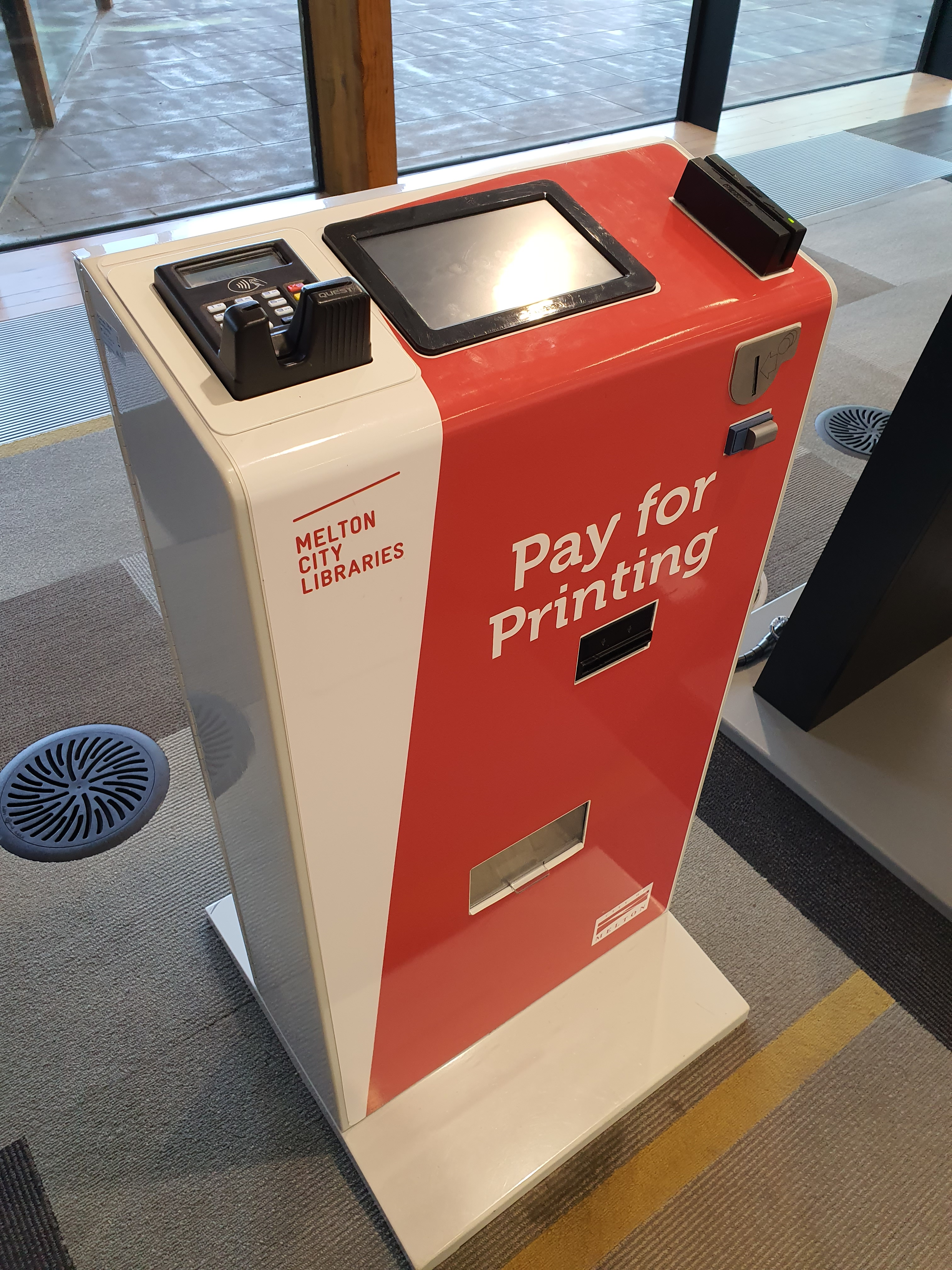 Kiosk self service payment for printing as library service. See also here for more information.